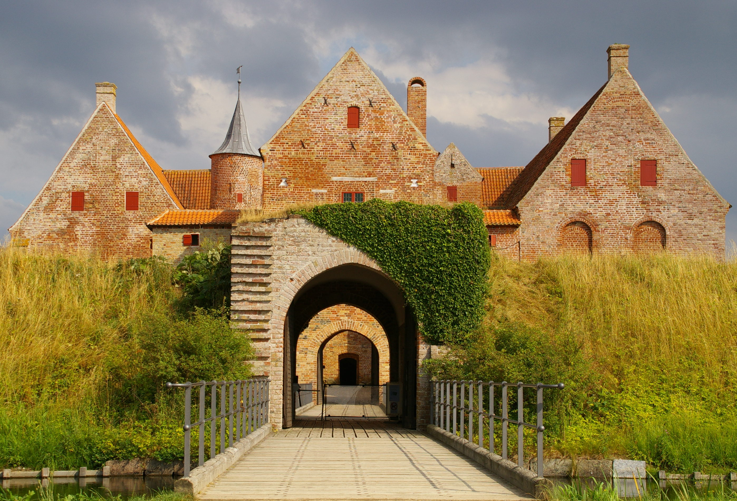 The entry of the Spøttrup Borg at the frontside. Der Eingang der Wasserburg Spøttrup an der Frontseite.